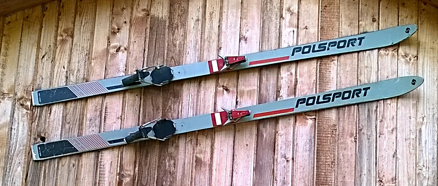 Skis manufactured by Polsport